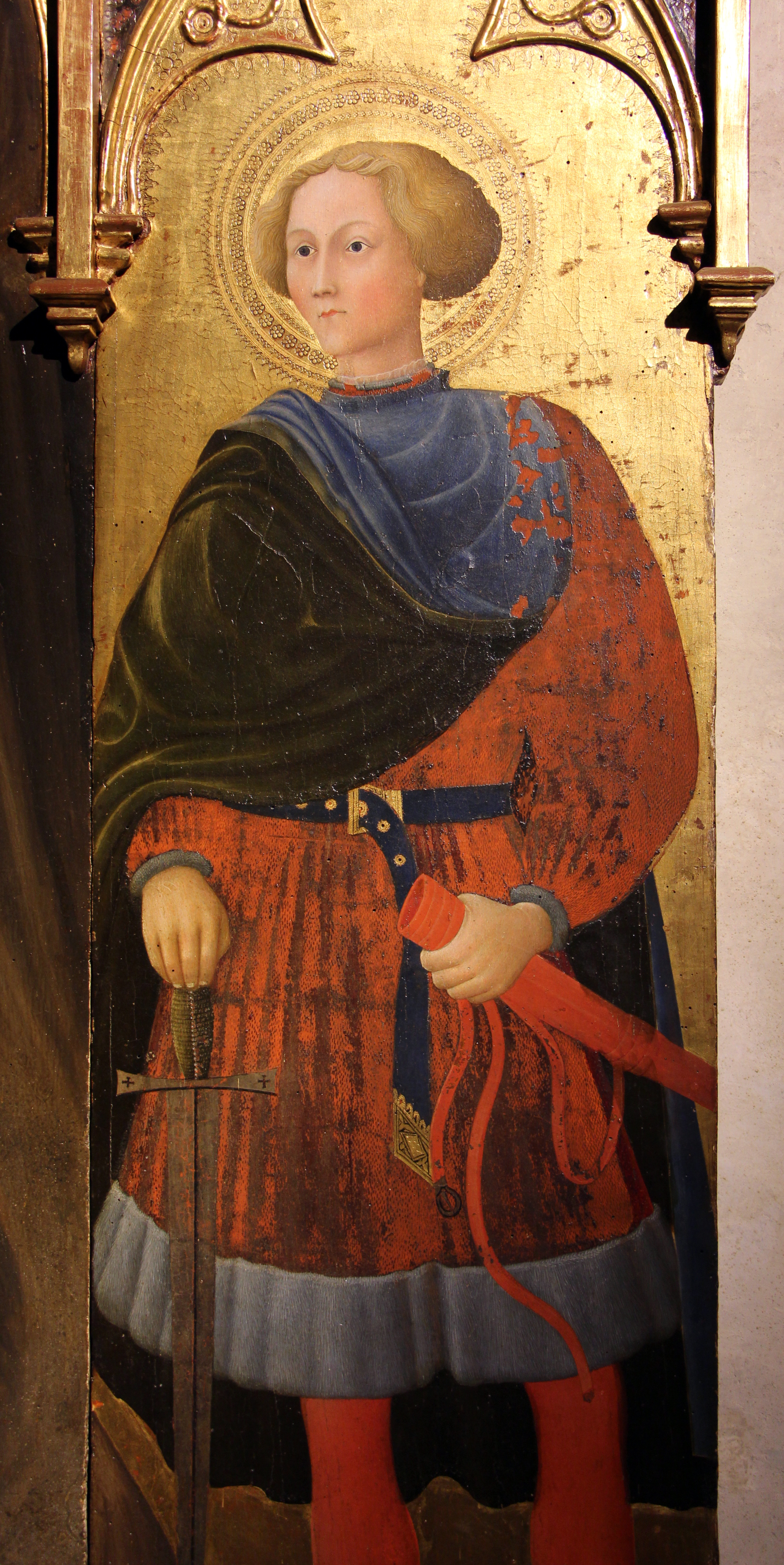 Adoration of the Shepherds between Saints Augustin and Galgano by Pietro di Giovanni d'Ambrogio